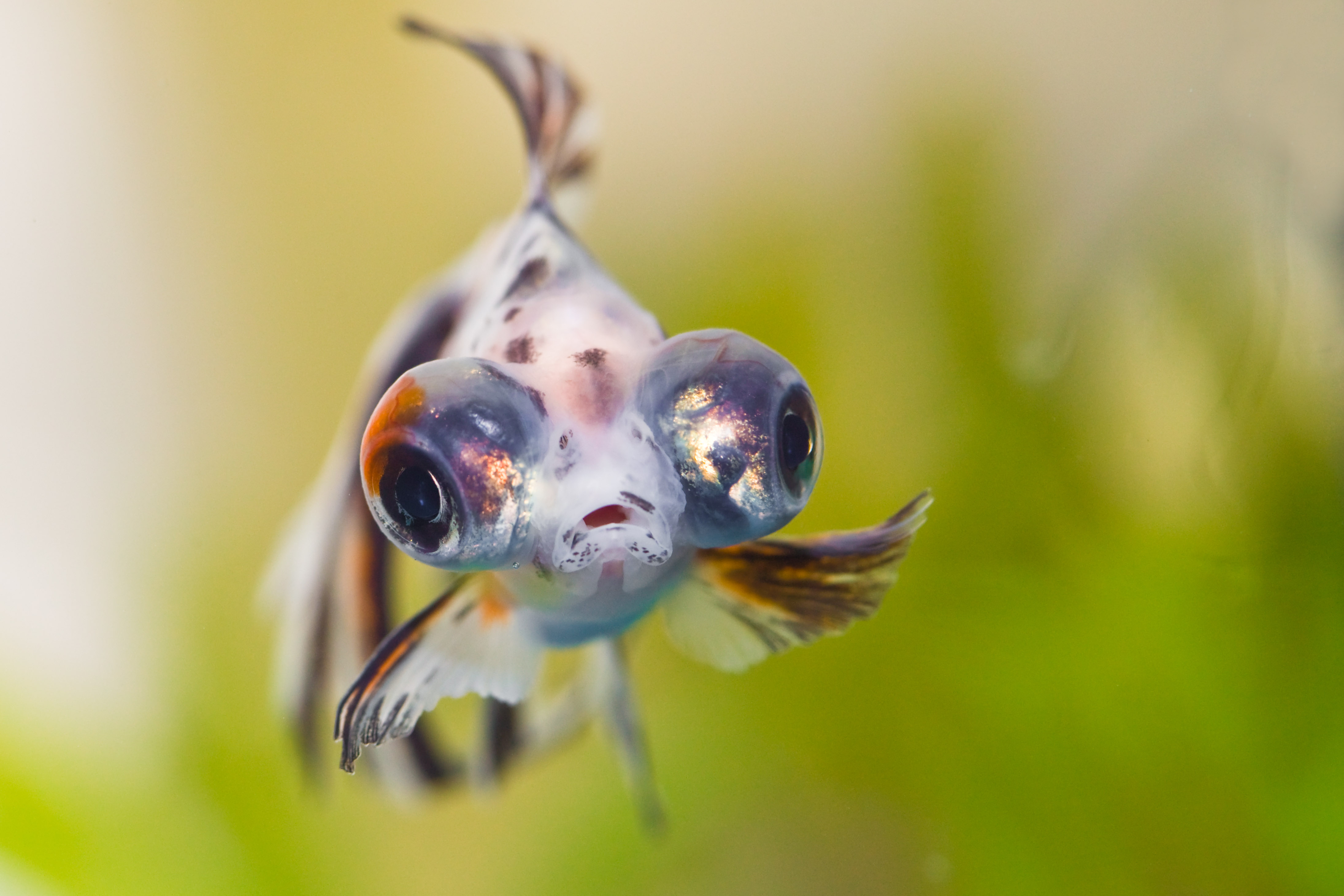 I finally got new fish today after that almost 5 month hiatus of no fish. I spent the last week trying to disinfect the tank of that fungus that killed all my fish last time, I hope it doesn't creep up ever again! This one looks like Lippy but of the calico variety. He/she is still unnamed and I suck at naming so any suggestions are welcome. There are 2 other new fish but they're quite camera shy at the moment hehe.